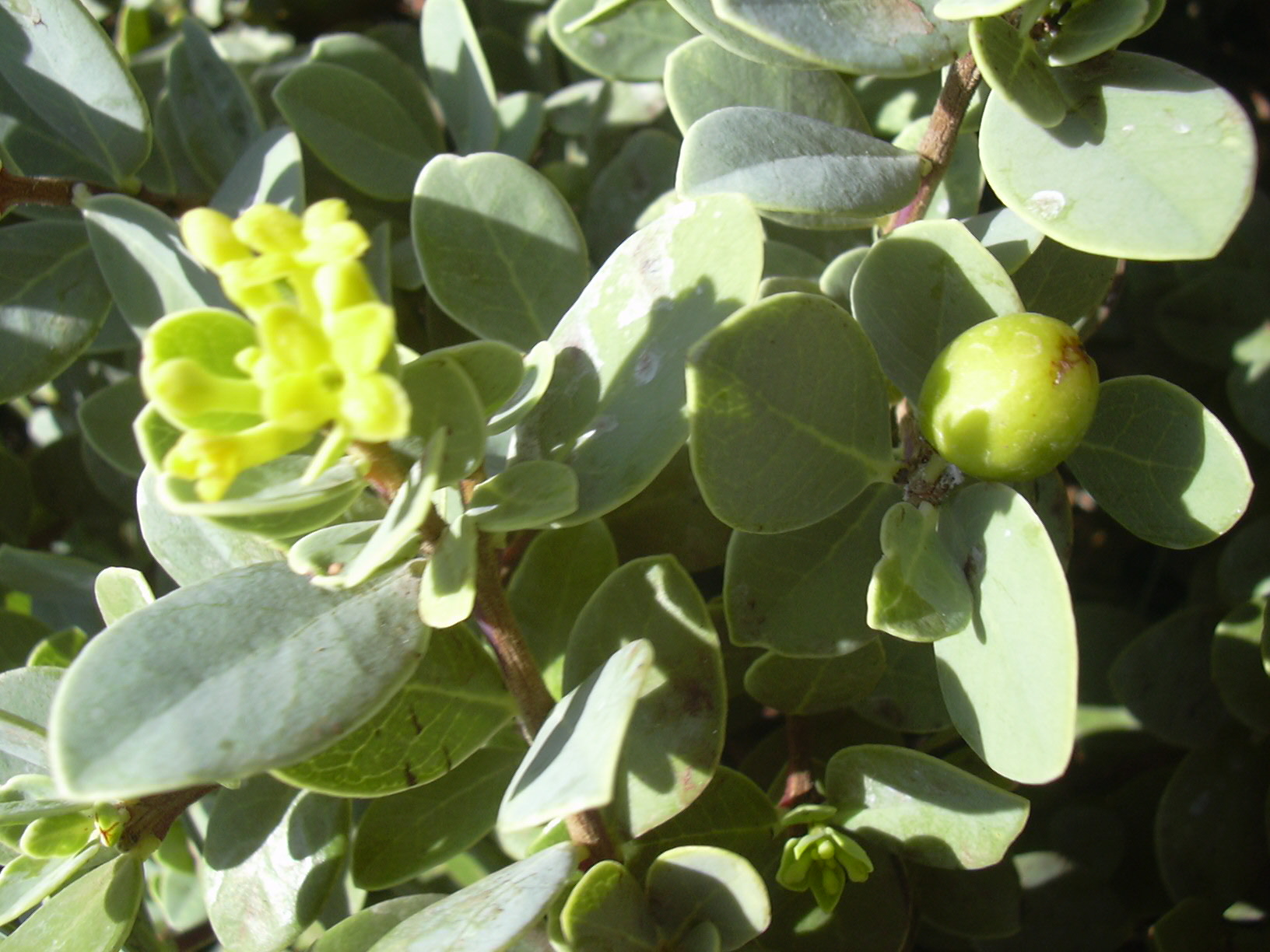 Wikstroemia uva-ursi (flowers and fruit). Location: Maui, State nursery Kahului